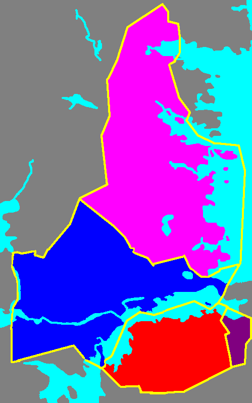 Pirkkala/Pohjois-Pirkkala/Nokia/Ylöjärvi borders 1636-1921. (Source: Saarenheimo, Juhani, 1974, Vanhan Pirkkalan historia, Hämeen Kirjapaino Oy, Tampere, ISBN 951-99036-1-5)